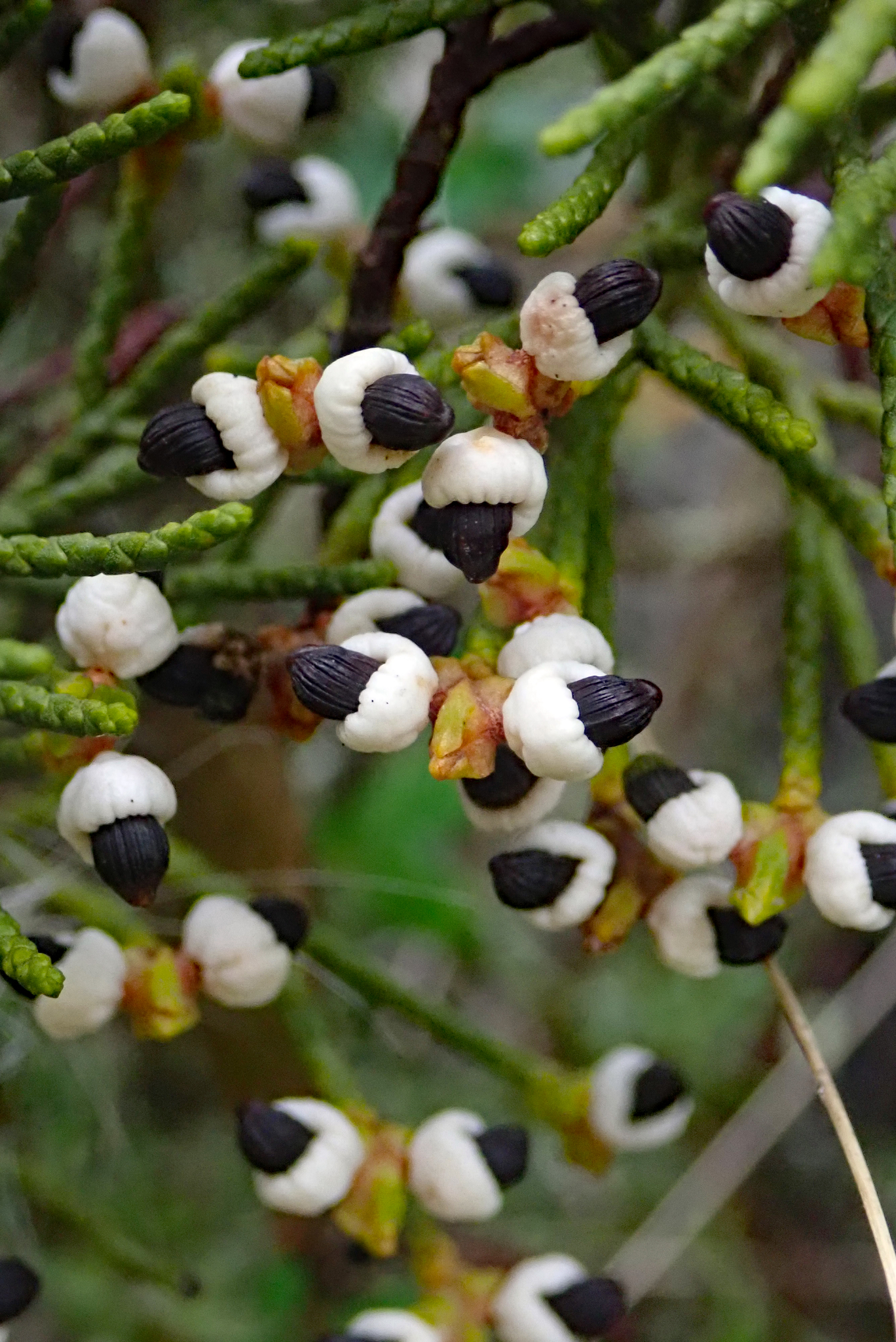 Halocarpus bidwillii in Te Anau - Mossburn Highway, The Wilderness Scientific Reserve